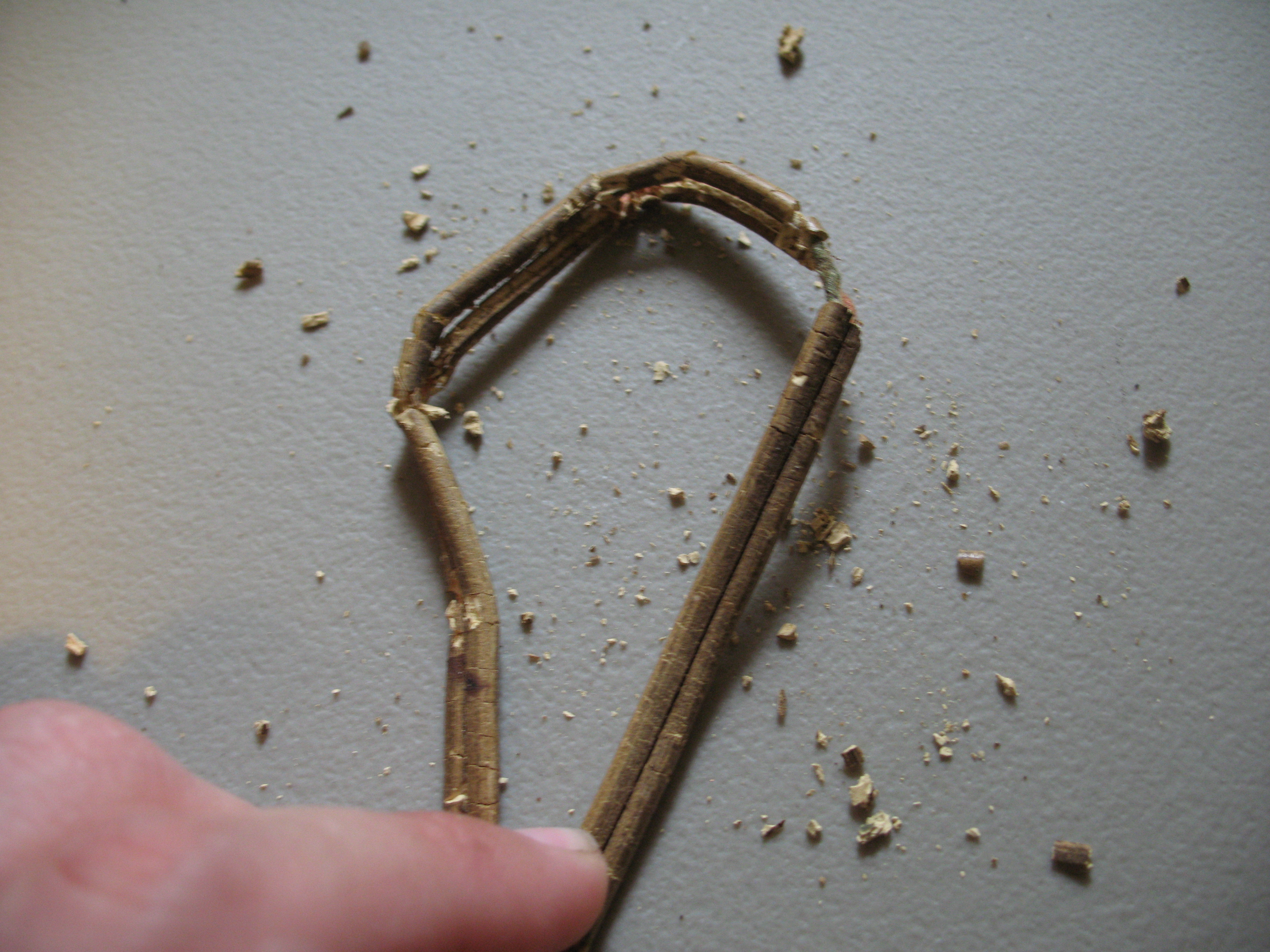 Loss of plasticizers due to diffusion and evaporation eventually leads to the hardening of the plastic insulation, to the point that the slightest flexing causes the plastic to crumble apart.